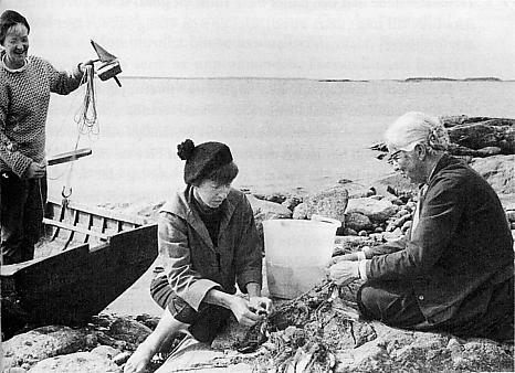 Tuulikki Pietilä, Tove Jansson and Signe Hammarsten-Jansson in 1958.